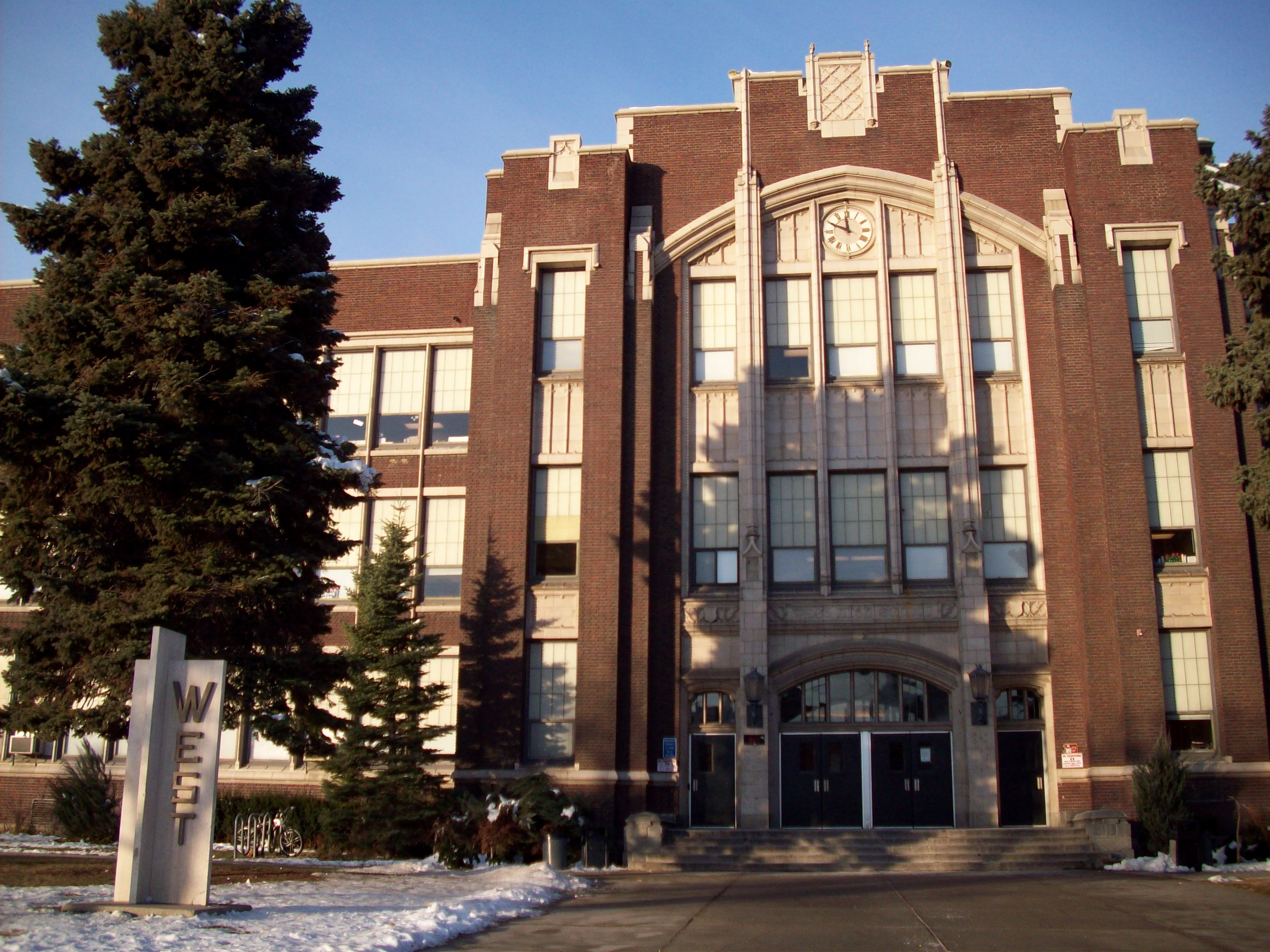 Picture of the entrance of West High School, Salt Lake City